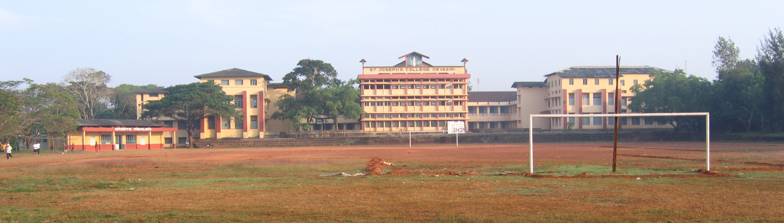 St Joseph's College Devagiri, Kozhikode